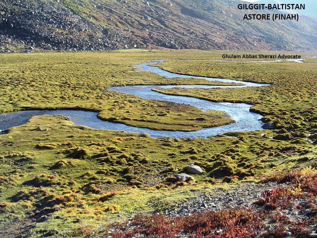 The village of finah is including 3 beauty full lakes and natural beauty